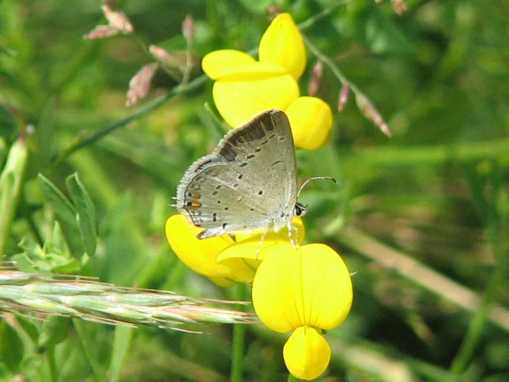 Eastern Tailed-blue (Cupido comyntas) taken along Rideau River in Ottawa, Canada